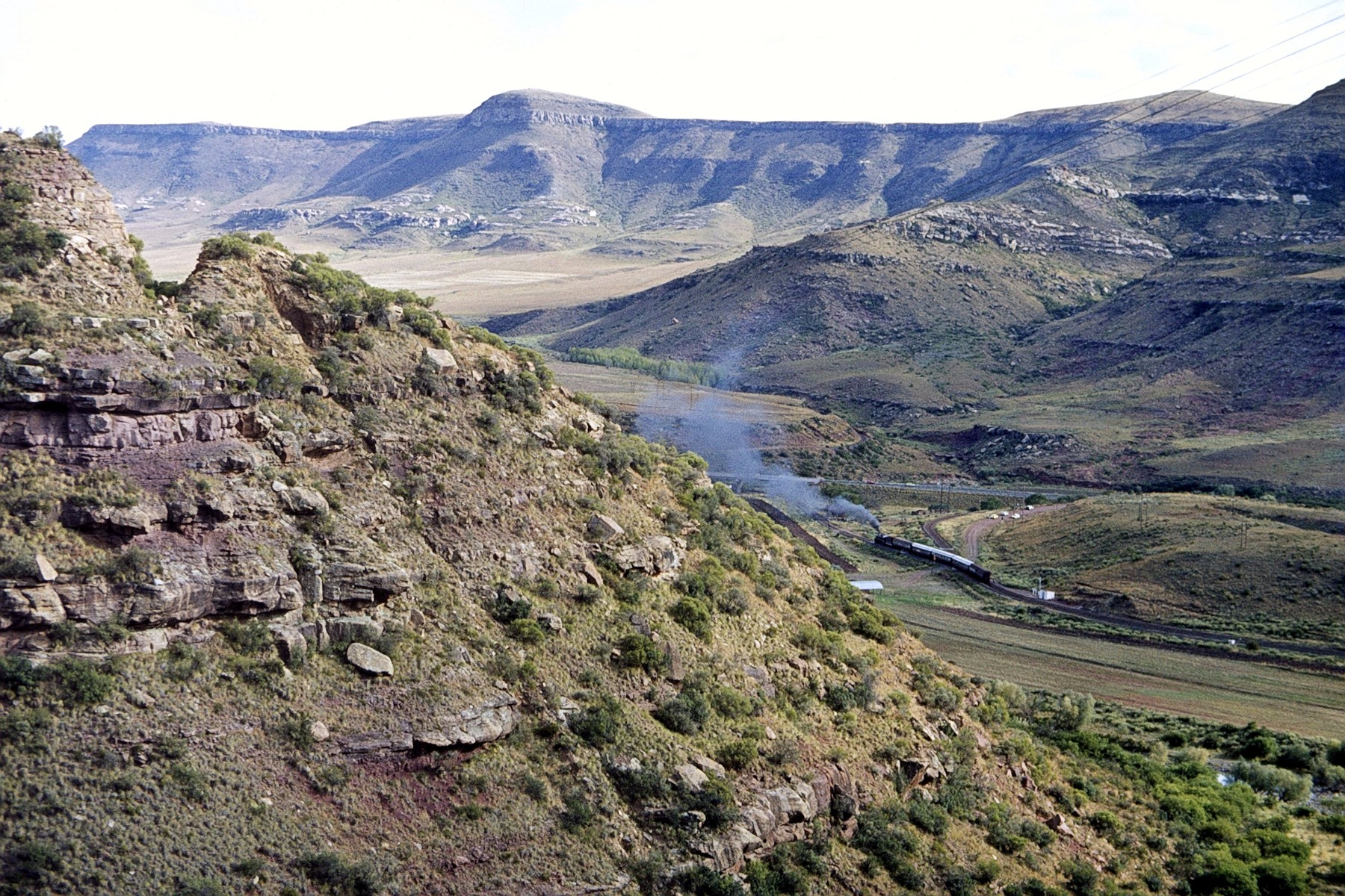 Railway line Aliwal North - Lady Grey - Barkly East: View from the Northern tunnel face (not visible, because behind photo position) to the opposite side of the Karringmelkspruit gorge. The original intention was to lay the railway line through the cutting (in picture left) and then over a bridge with a height above ground of 90 m. On the right side a class 19D locomotive pushes her train to the 4th reverse station. The water tank at which the loco has filled her tender is almost hidden by the smoke.